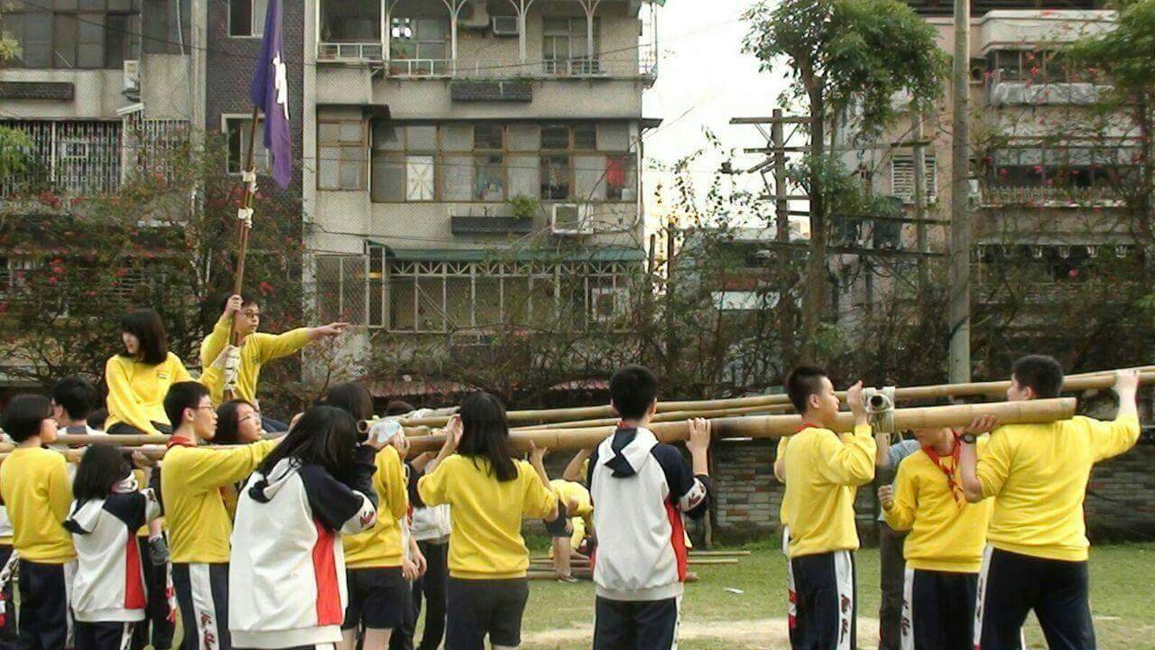 The house leader and the deputy house leader being carried high up in the sky and fighting against white snow house In Year 15-16